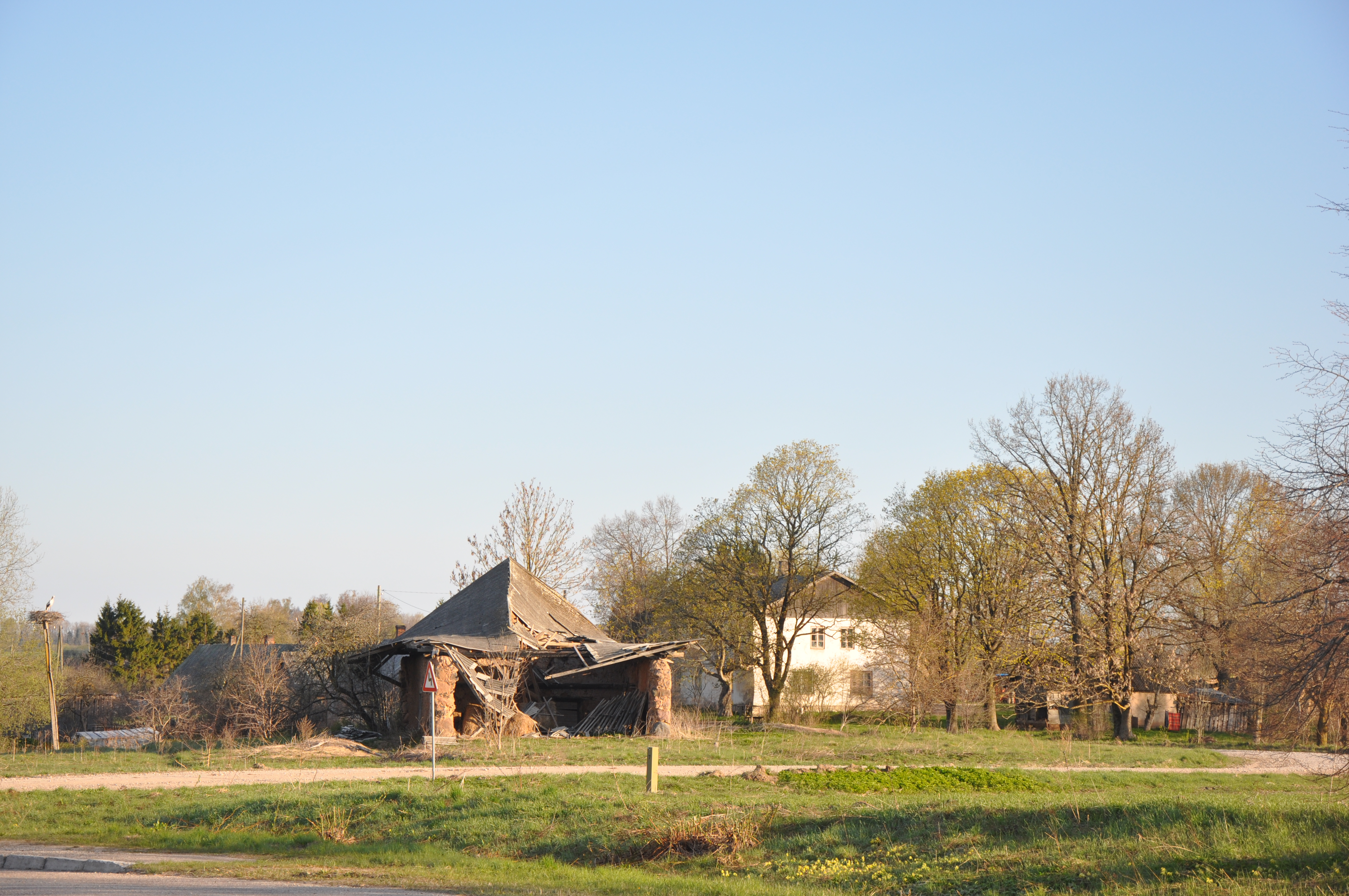 Raudziņi. On way from Talsi